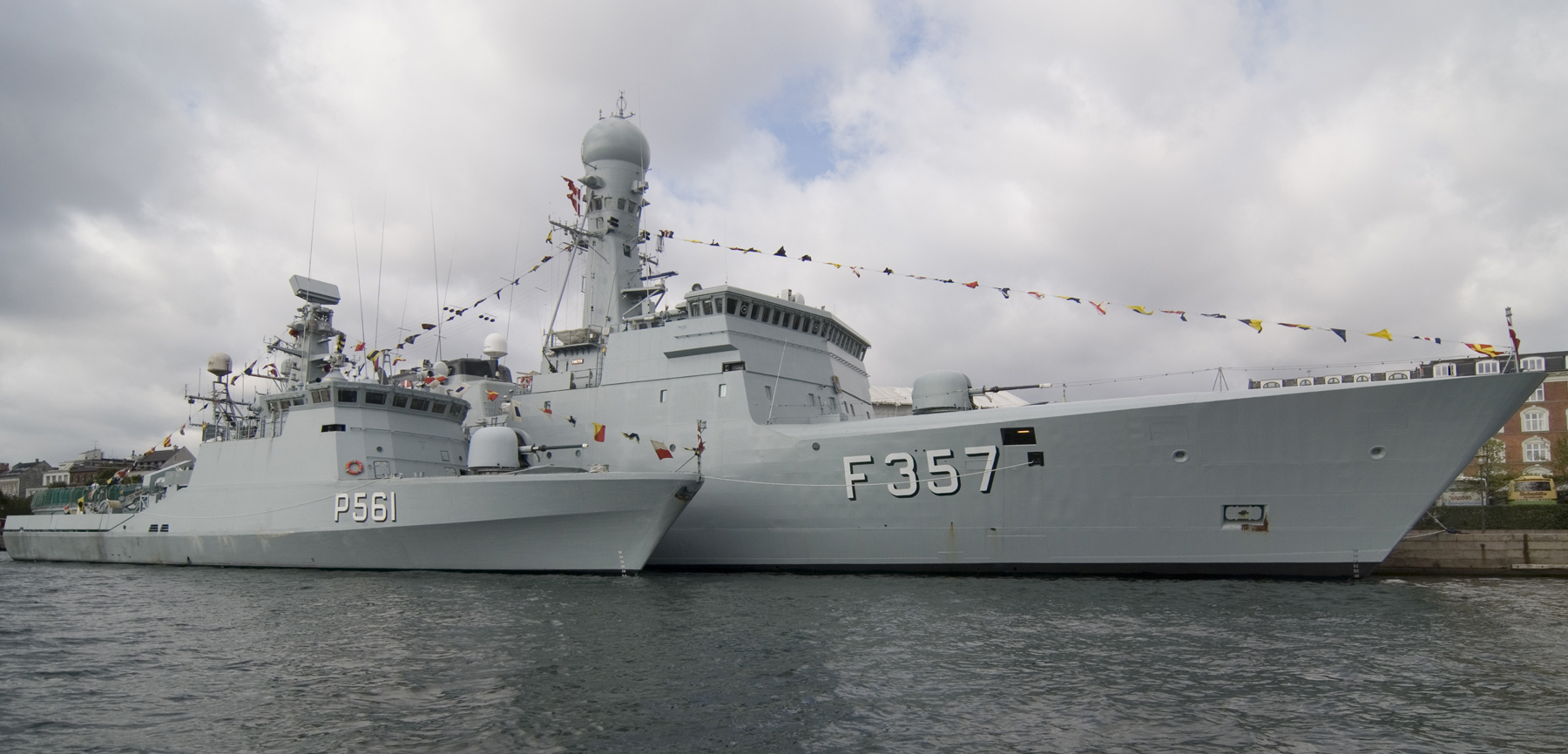 Danish naval ships F357 Thetis and P561 Skaden dockside in Copenhagen